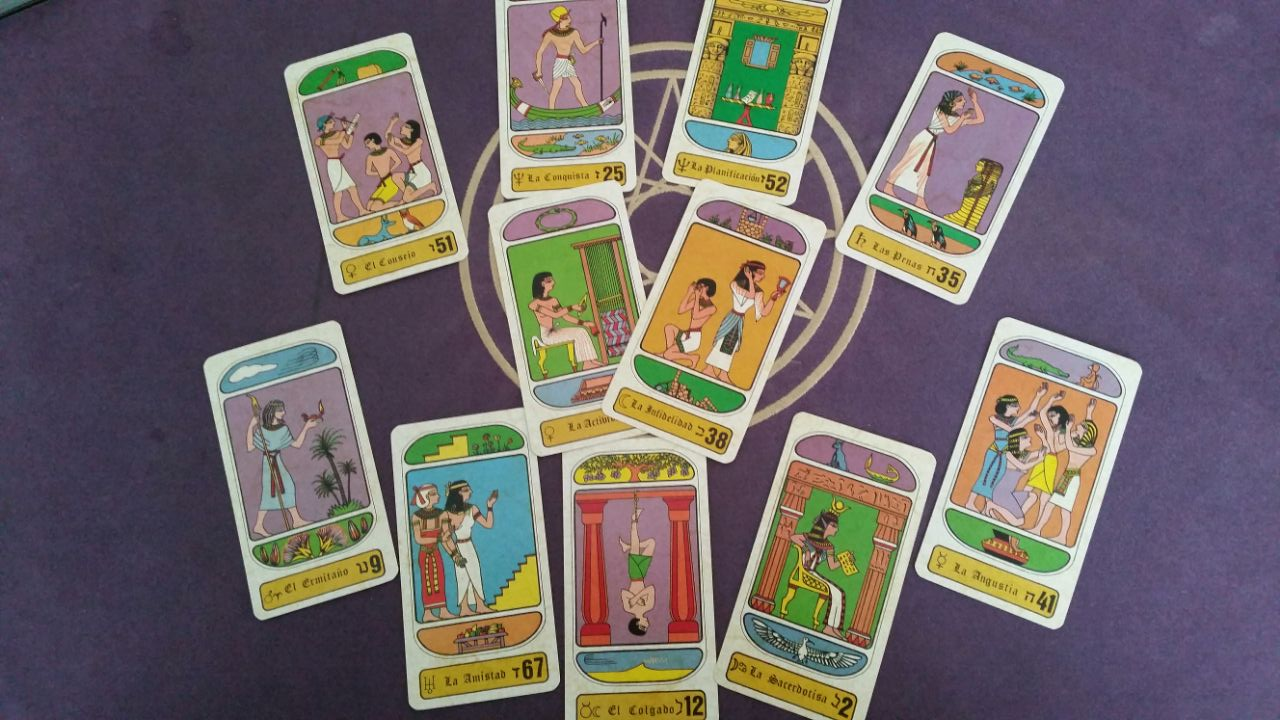 Egipcian Tarot Cards picture